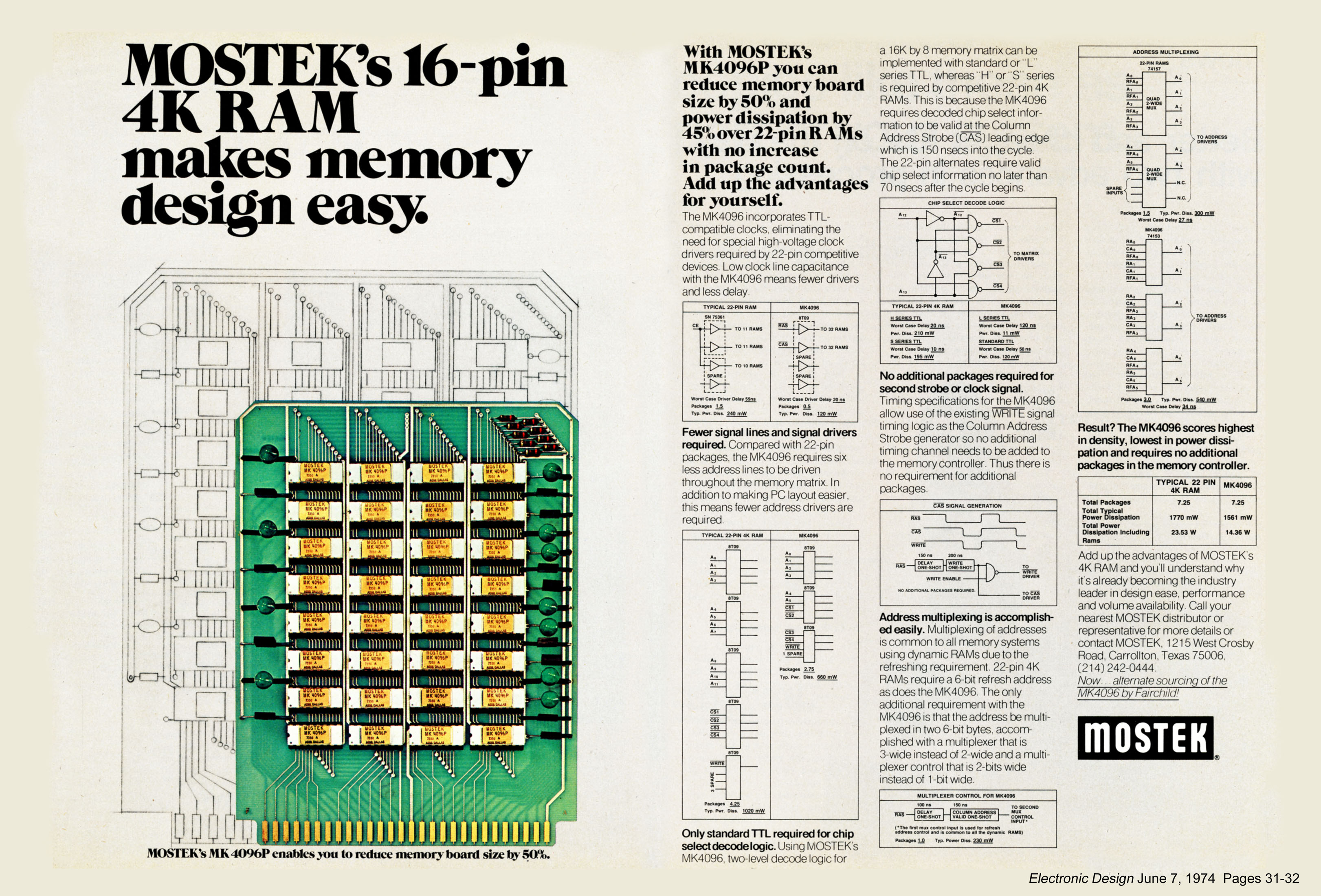 MOSTEK 4K Dynamic RAM advertisement in June 7, 1974 issue of Electronic Design magazine. Pages 31-32.